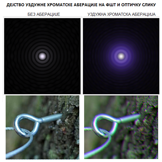 ДЕЈСТВО УЗДУЖНЕ ХРОМАТСКЕ АБЕРАЦИЈЕ НА ФШТ И ОПТИЧКУ СЛИКУ